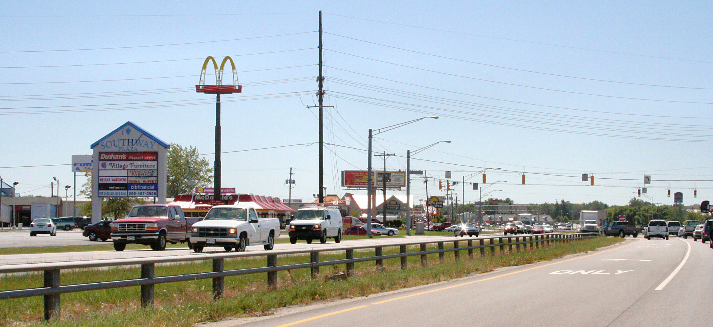 Kokomo, Indiana along US31. Photo shot by Derek Jensen (Tysto), 2005-September-02